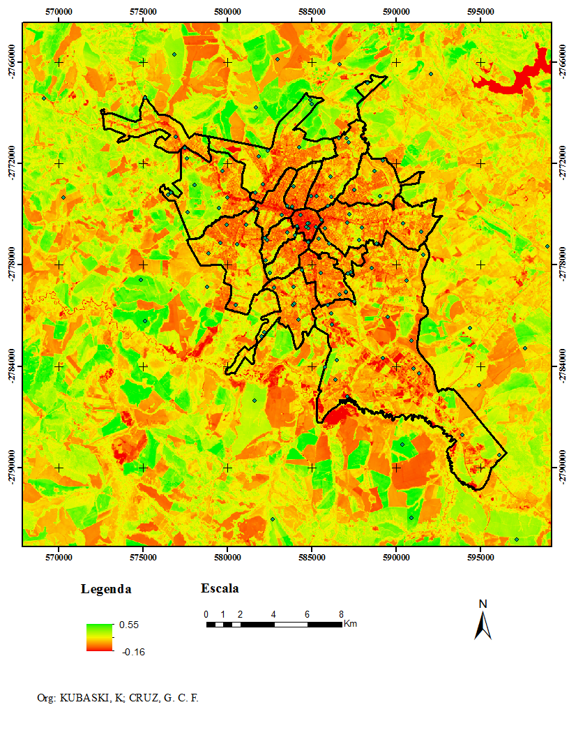 NDVI applied to the urban area of Ponta Grossa, southern Brazil during a drought at the end of winter 2017